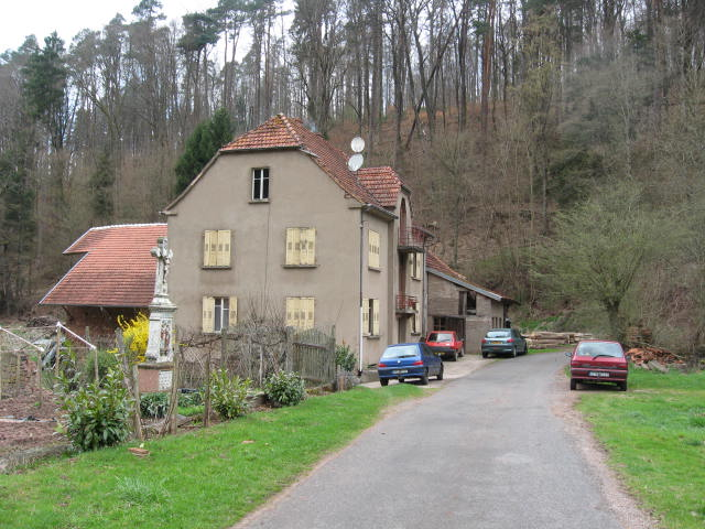 Montbronn's former watermill